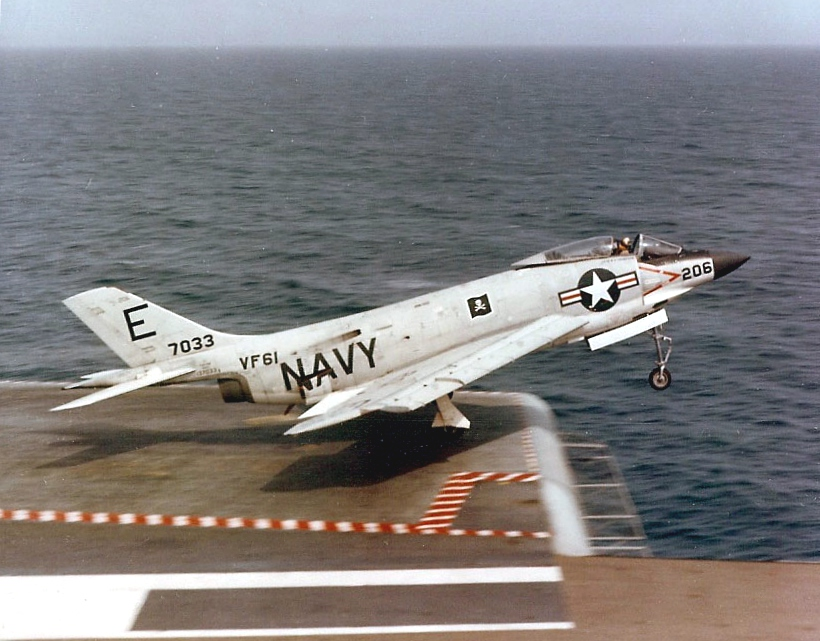 U.S. Navy Lt. F.A.W. Franke takes off in a McDonnell F3H-2M Demon (BuNo 137003) of Fighter Squadron VF-61 "Jolly Rogers" from aircraft carrier USS Franklin D. Roosevelt (CVA-42) during carrier qualifications, in April 1957. VF-61 was assigned to Carrier Air Group 8 (CVG-8). The squadron actually never deployed with CVG-8 while flying the F3H, it only made a single deployment aboard USS Saratoga (CVA-60), assigned to CVG-7, before being disestablished in 1959.